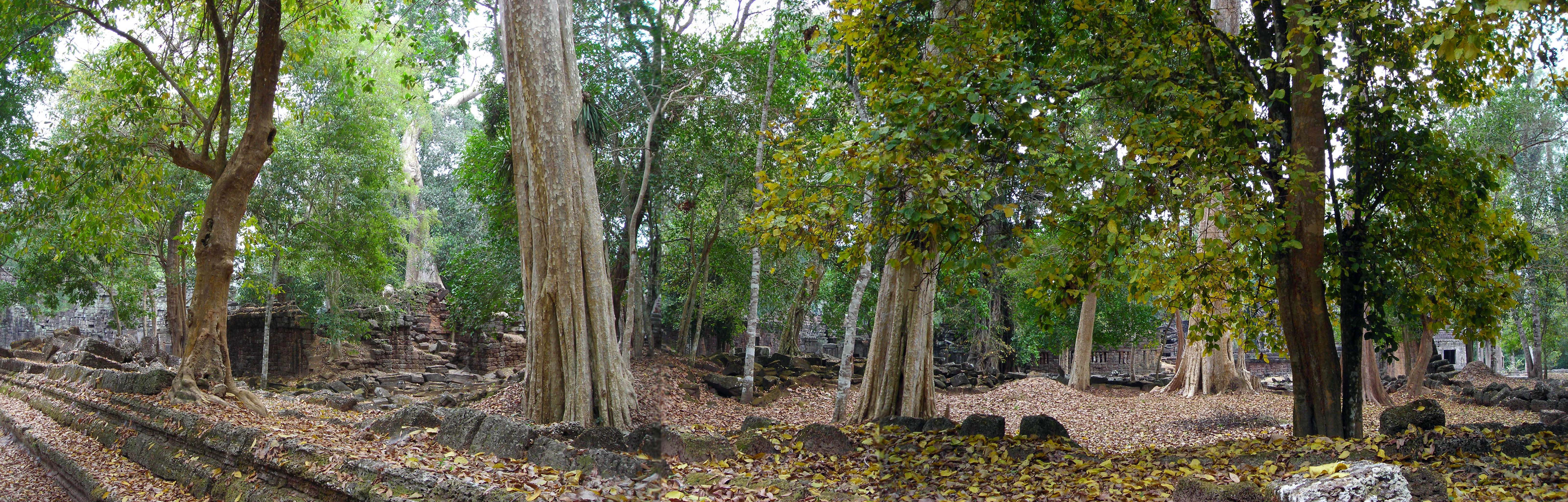 The Preah Khan temple (in Angkor, Cambodia) is taken over by the jungle.